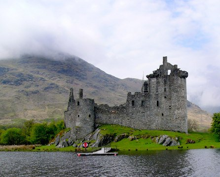 Kilchurn Castle from a boat on Loch Awe. Cropped to remove the boat and an image artefact.